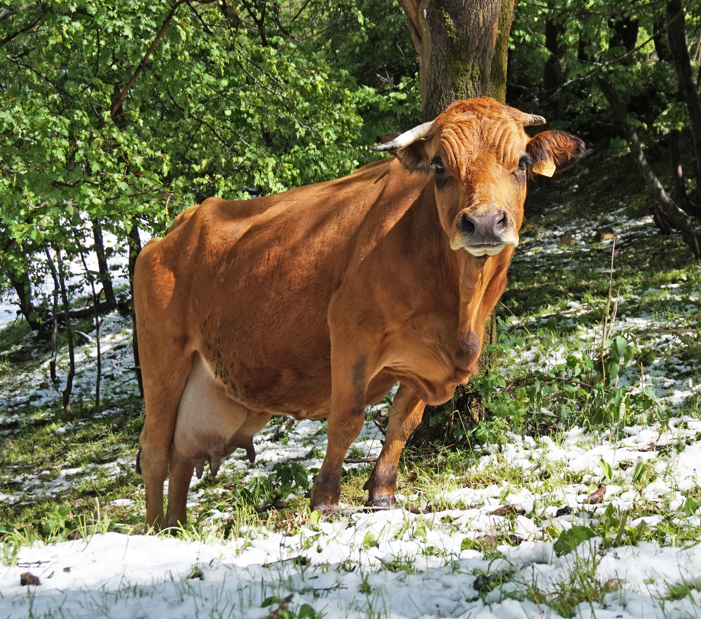 Cow in France. This photograph was taken with a Sony Alpha a5000.